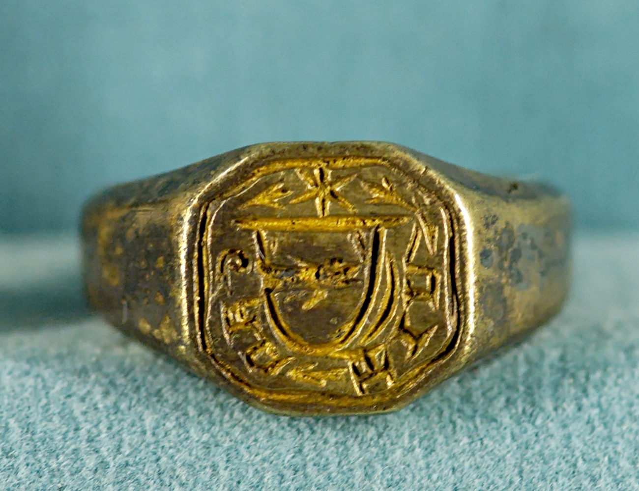 Ring with a coat of arms representing a fish. Gilt silver, 15th century. Found in the Seine river.